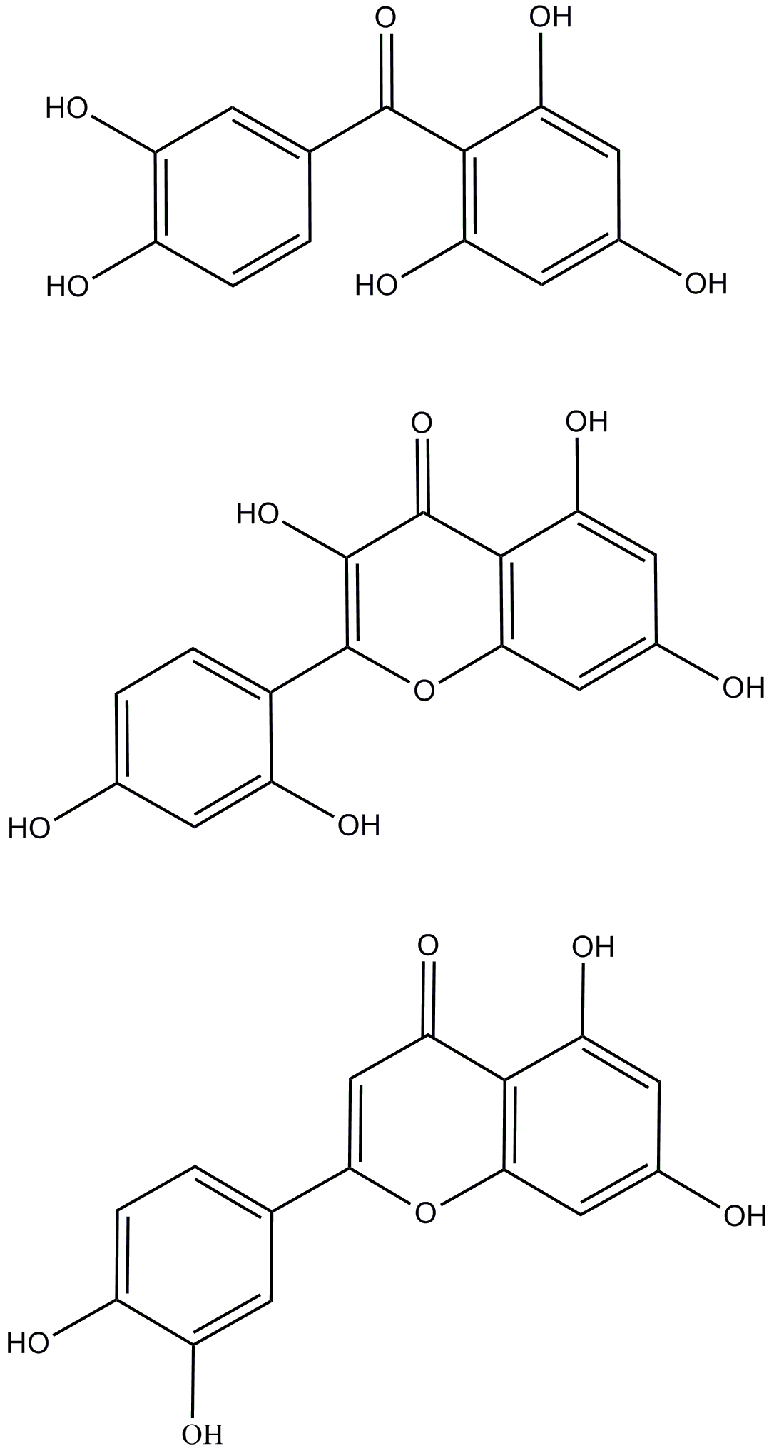 structures of maclurin-morin-luteolin